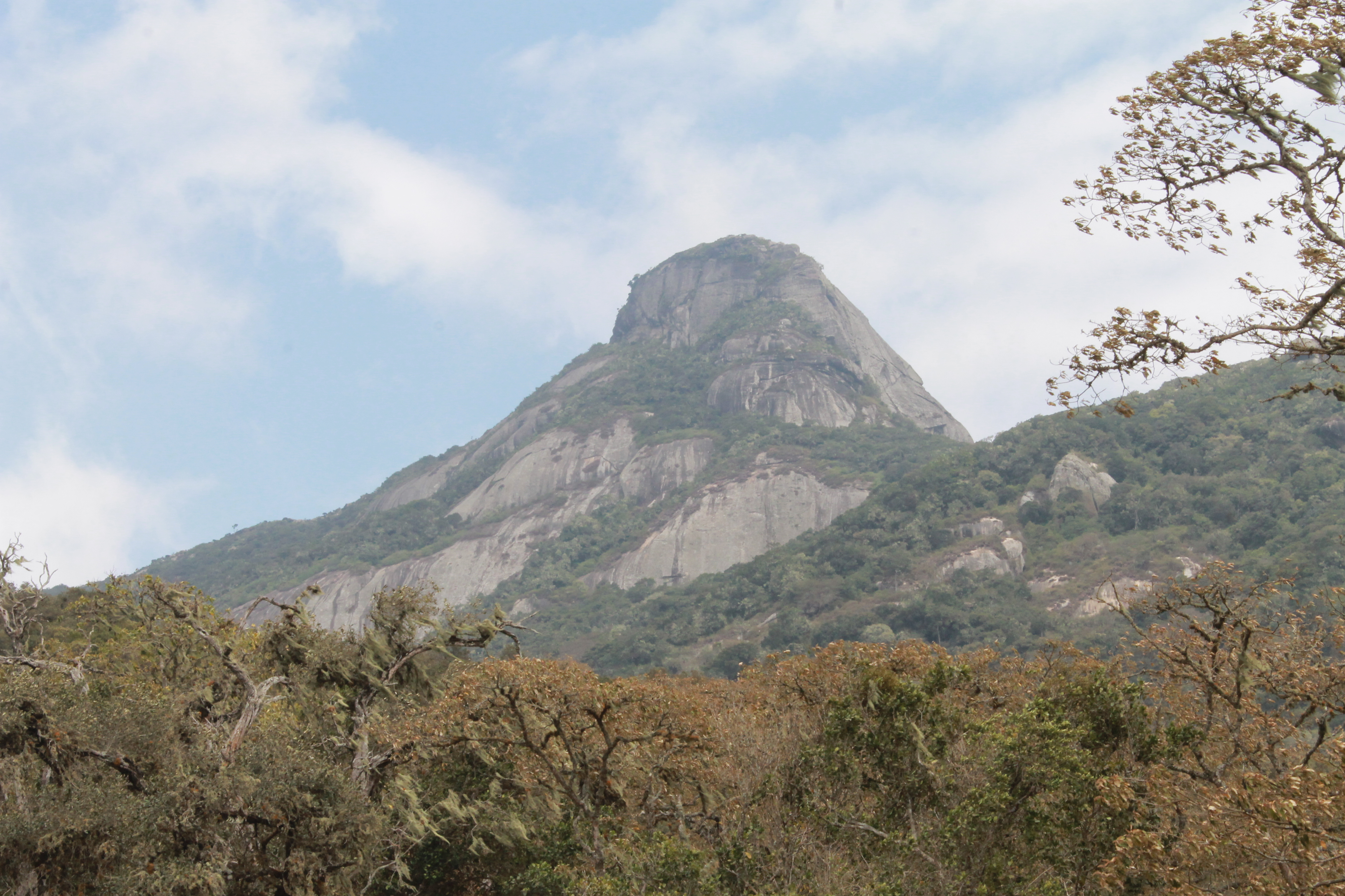 Picture of Mount Longido taken during an ascent.